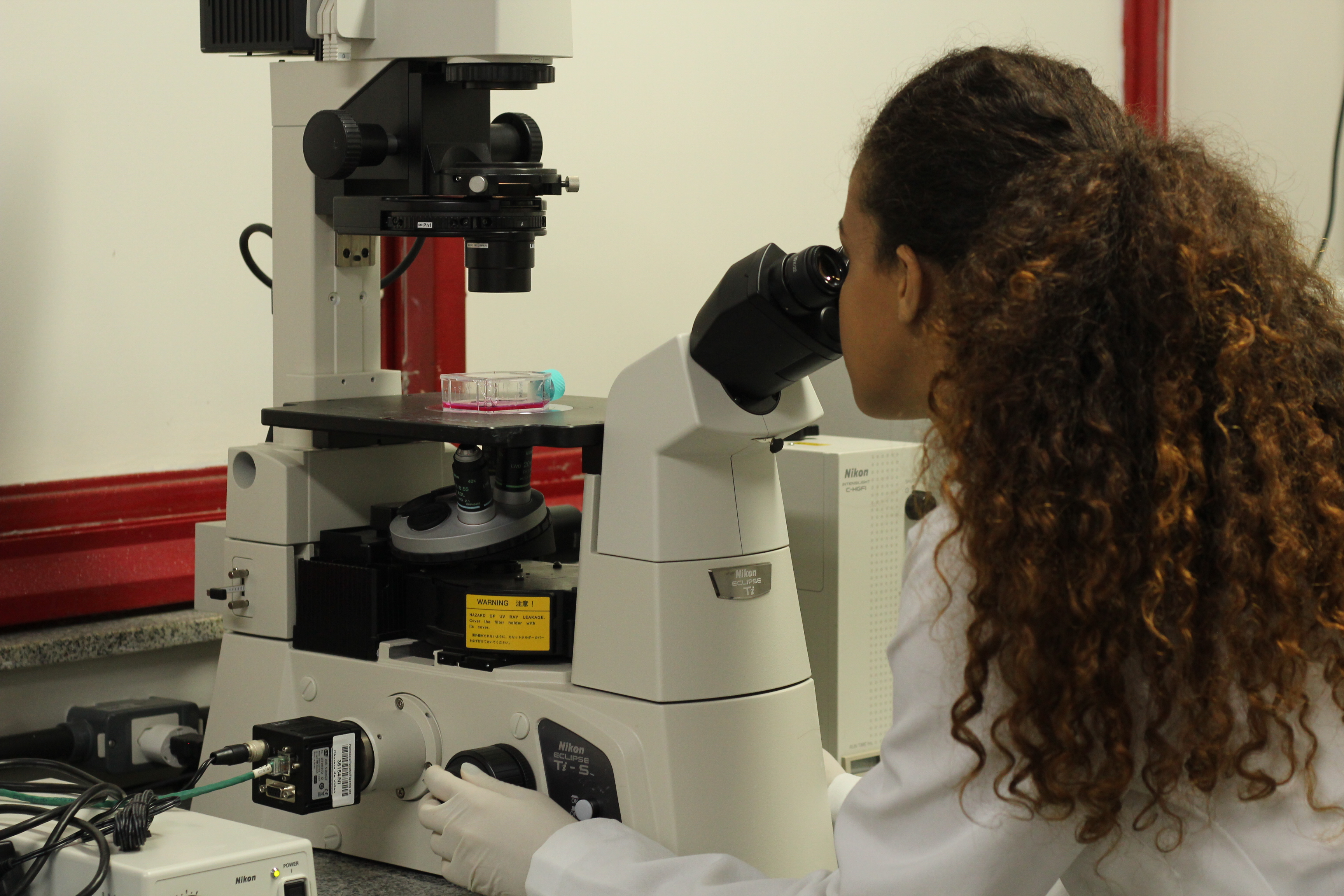 Biologist studying B16F10 skin cancer cells with the aid of inverted microscope.